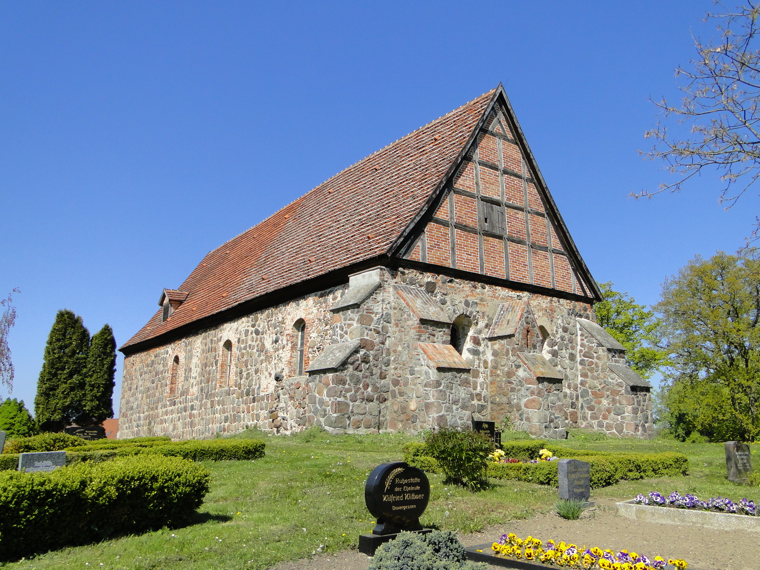 Church in Neetzka, district Mecklenburg-Strelitz, Mecklenburg-Vorpommern, Germany